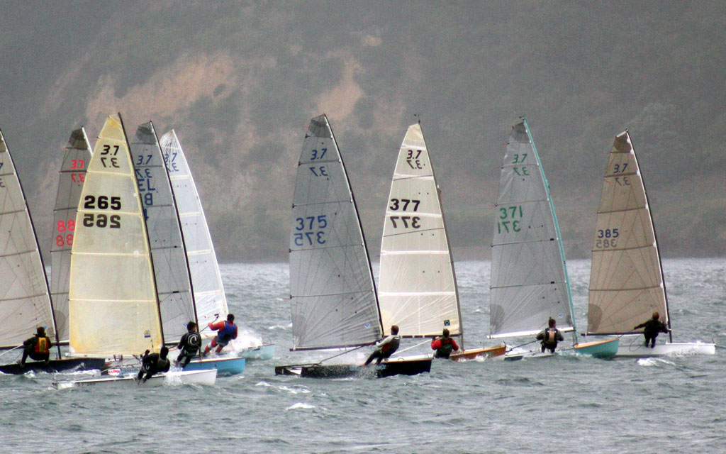 Farr 3.7 National Championship 2010, Evans Bay Wellington